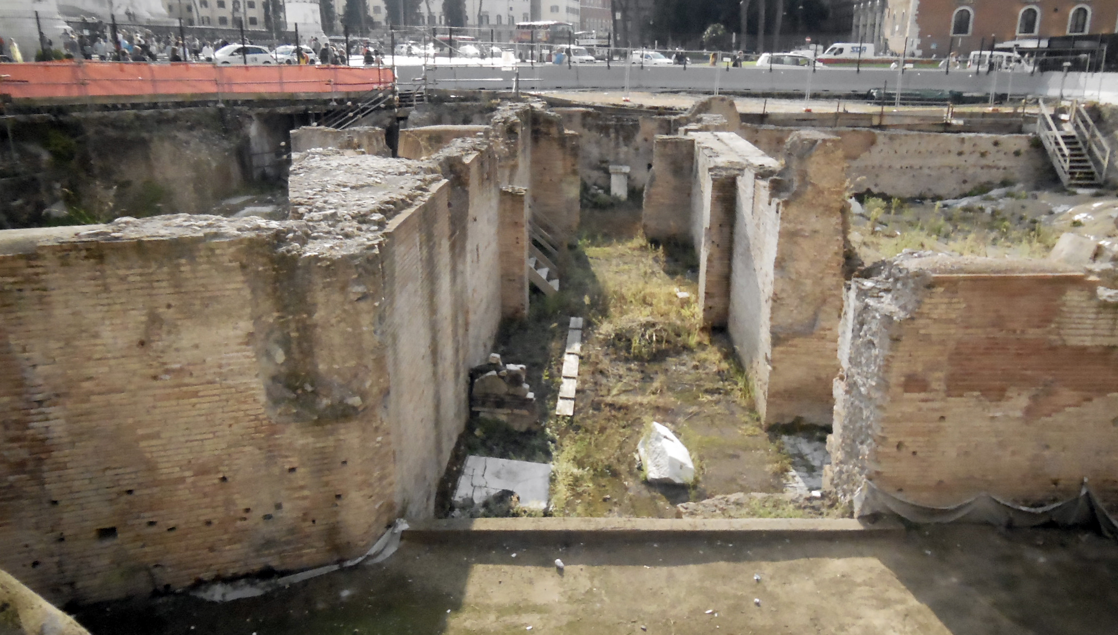 Italy, Rome, piazza Madonna di Loreto (near piazza Venezia), dig for the line C of the Rome metro, with remains of the Hadrian's Athenaeum: view of corridor between the central and the south hall.